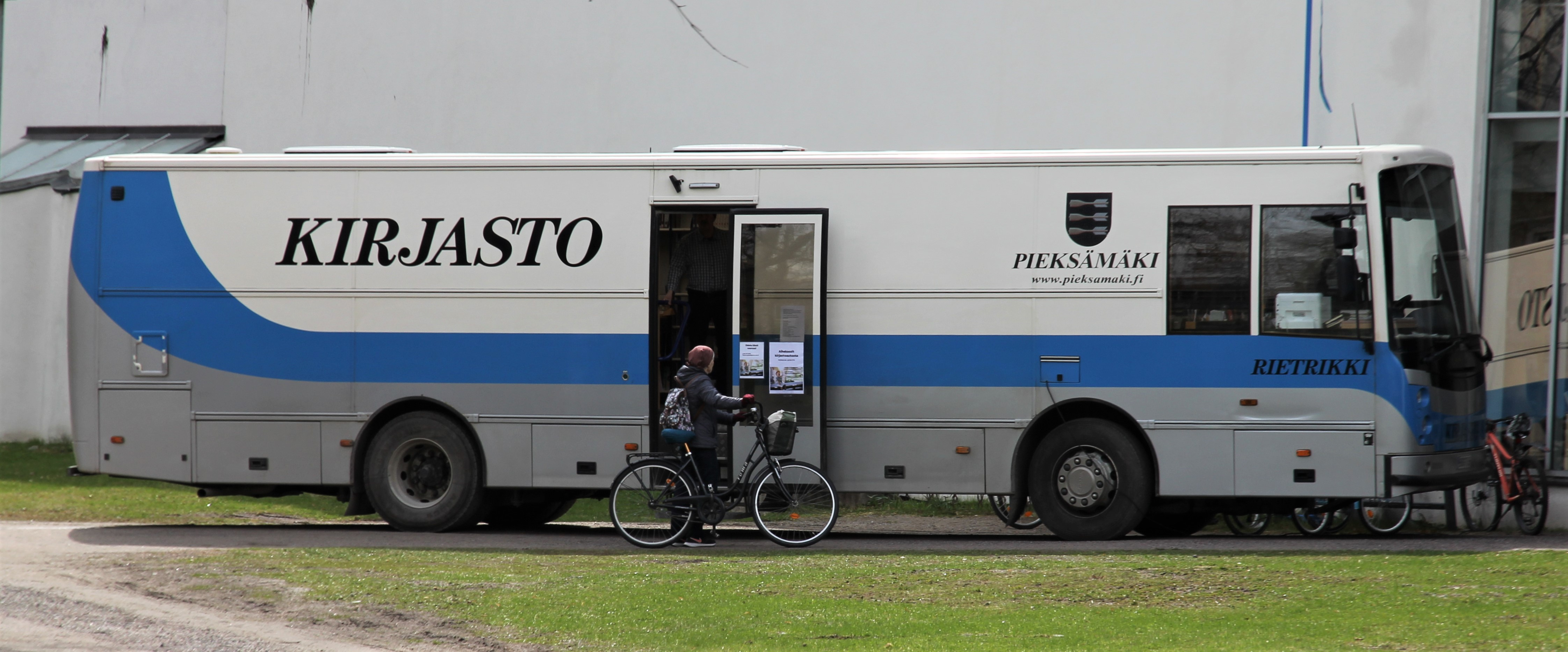 Book mobile bus Rietrikki, here parked next to the cultural center Poleeni (location of the city library) in Pieksämäki, Finland. Photo taken in May 2020.